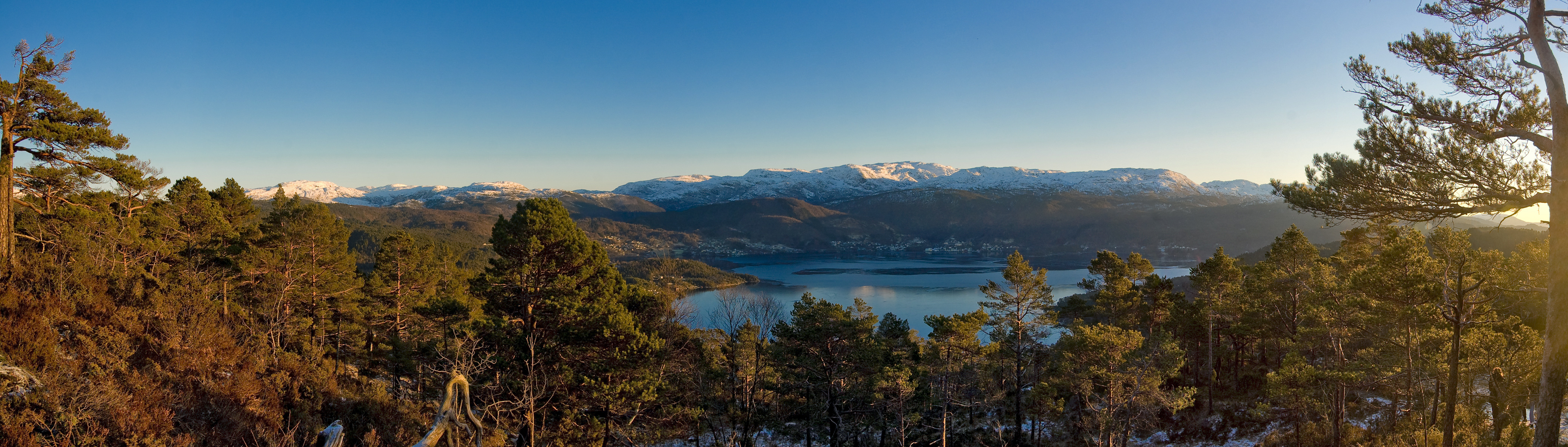 Samnanger, Norway. The body of water is the inner part of the Samanger Fjord.